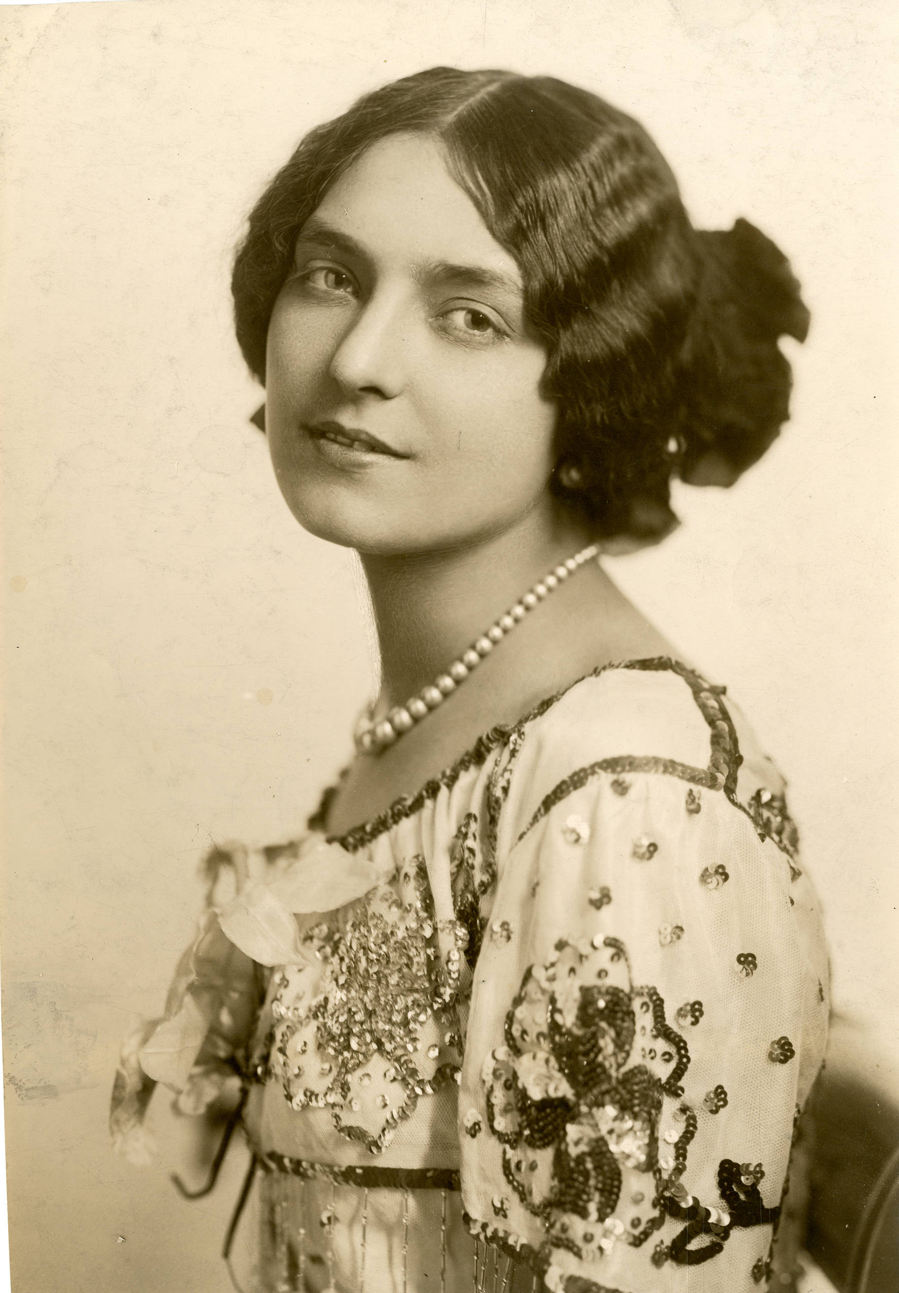 Dancer Rosina Galli. Subjects: dancers